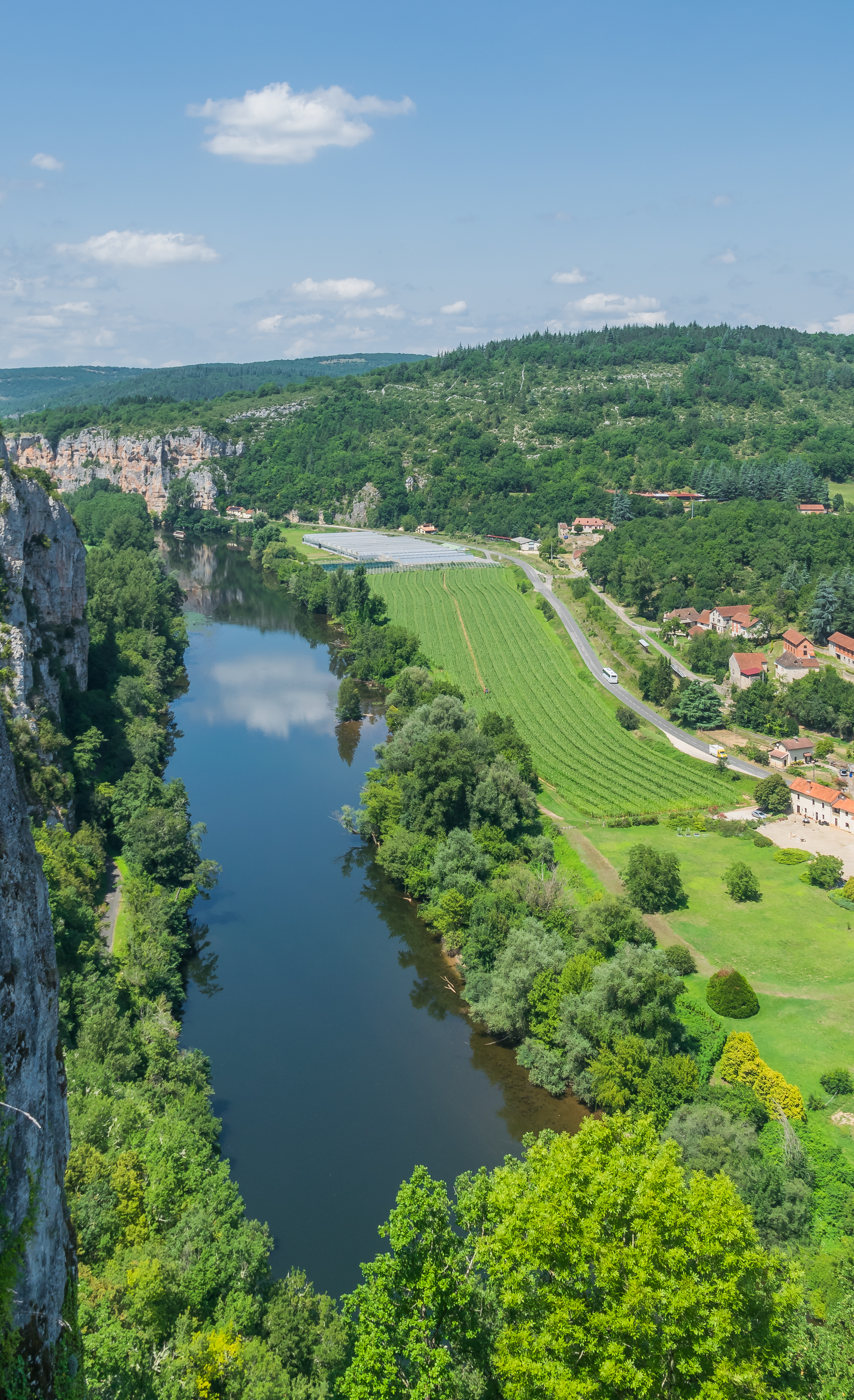 View on Lot valley from Saint-Cirq-Lapopie, Lot, France